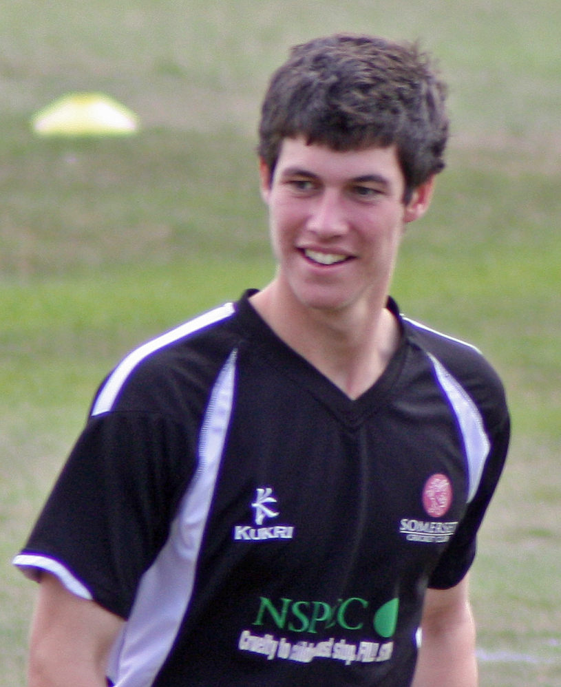 George Dockrell warming up for Somerset prior to their Clydesdale Bank 40 semi-final against Durham at the County Ground, Taunton.